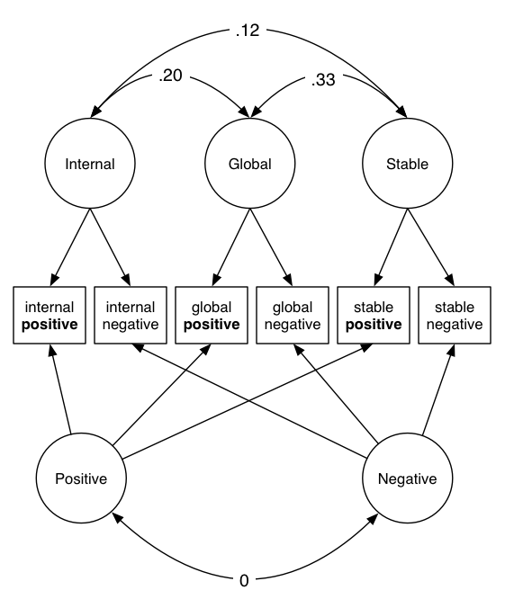 A structural Equation Model of attributional style